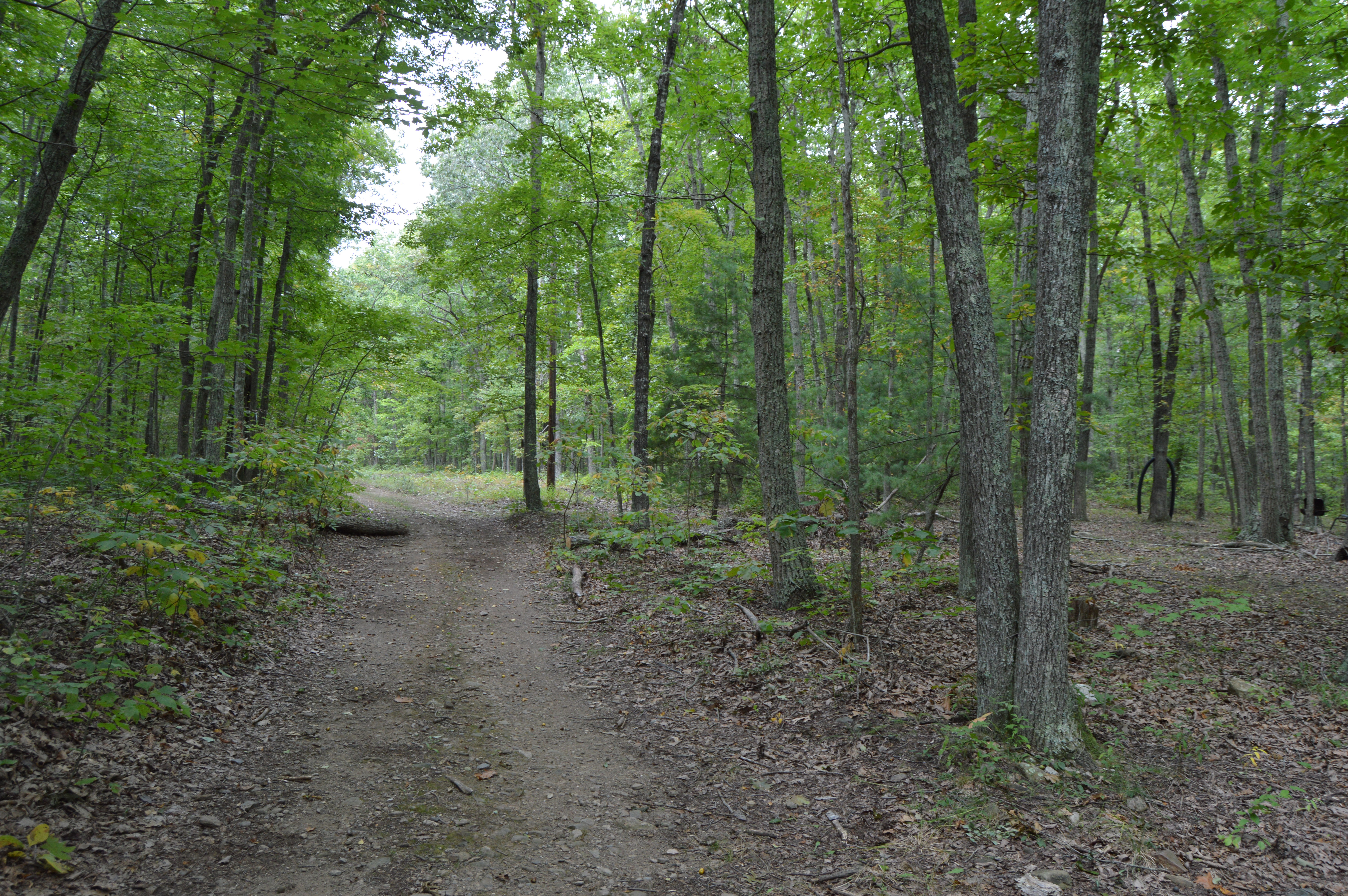 Land along Paine Run Road, southeast of Harriston, in Augusta County, Virginia, United States. Land on both sides of the road is included in archaeological site 44-AU-154, which is important enough that it has been listed on the National Register of Historic Places.